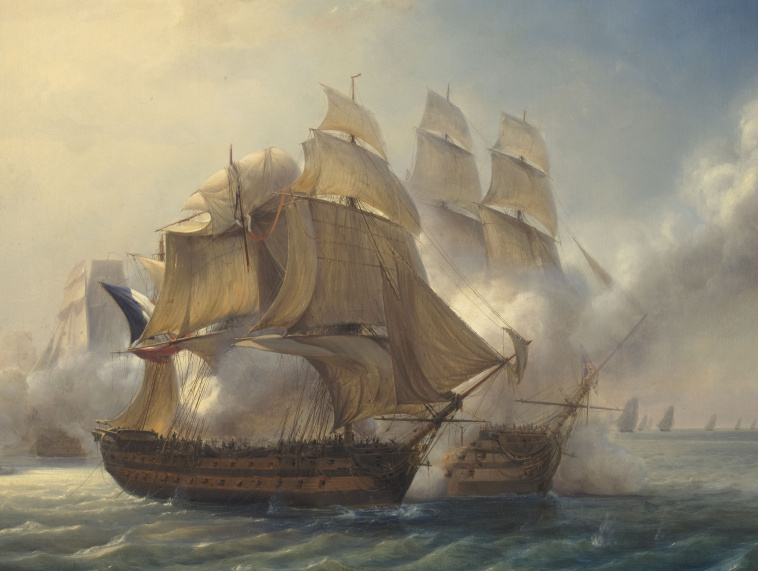 Fight of the Romulus